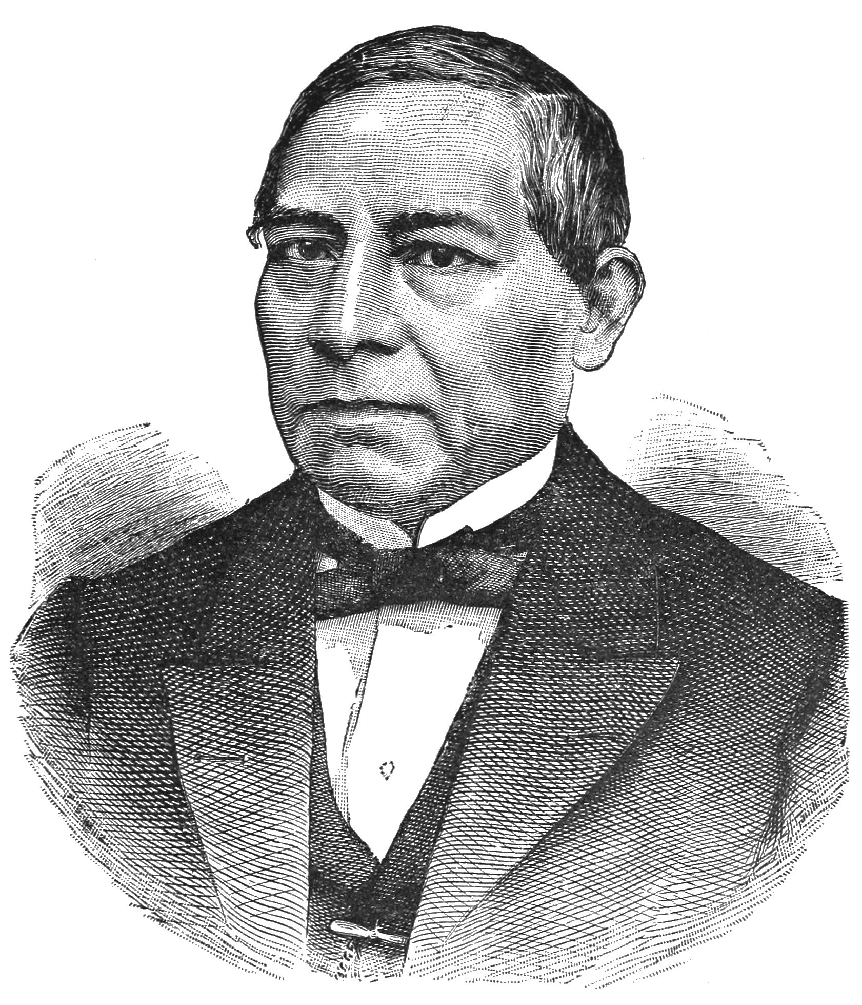 Benito Juarez